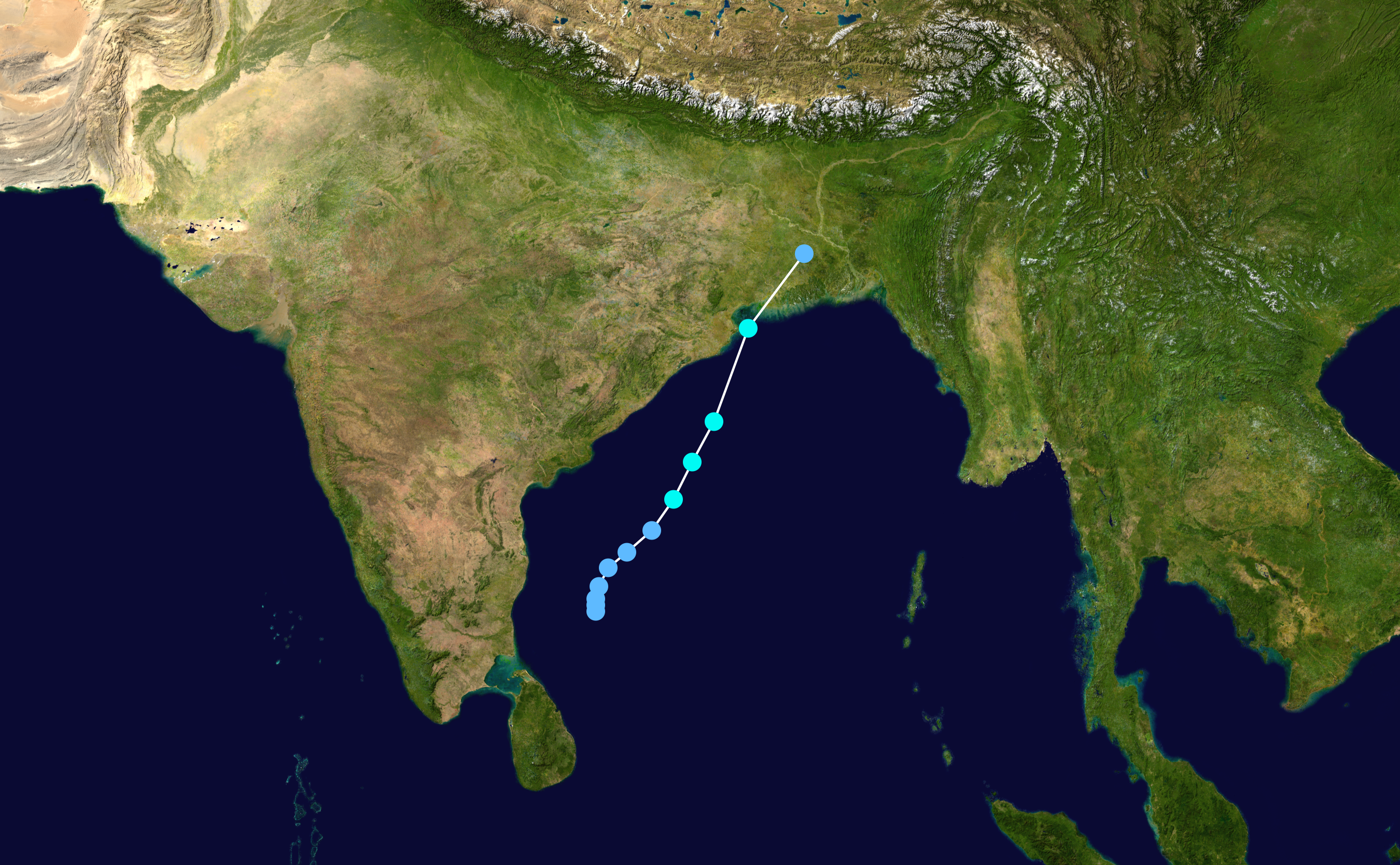 Cyclone 03B 2002 track. Uses the color scheme from the Saffir-Simpson Hurricane Scale.